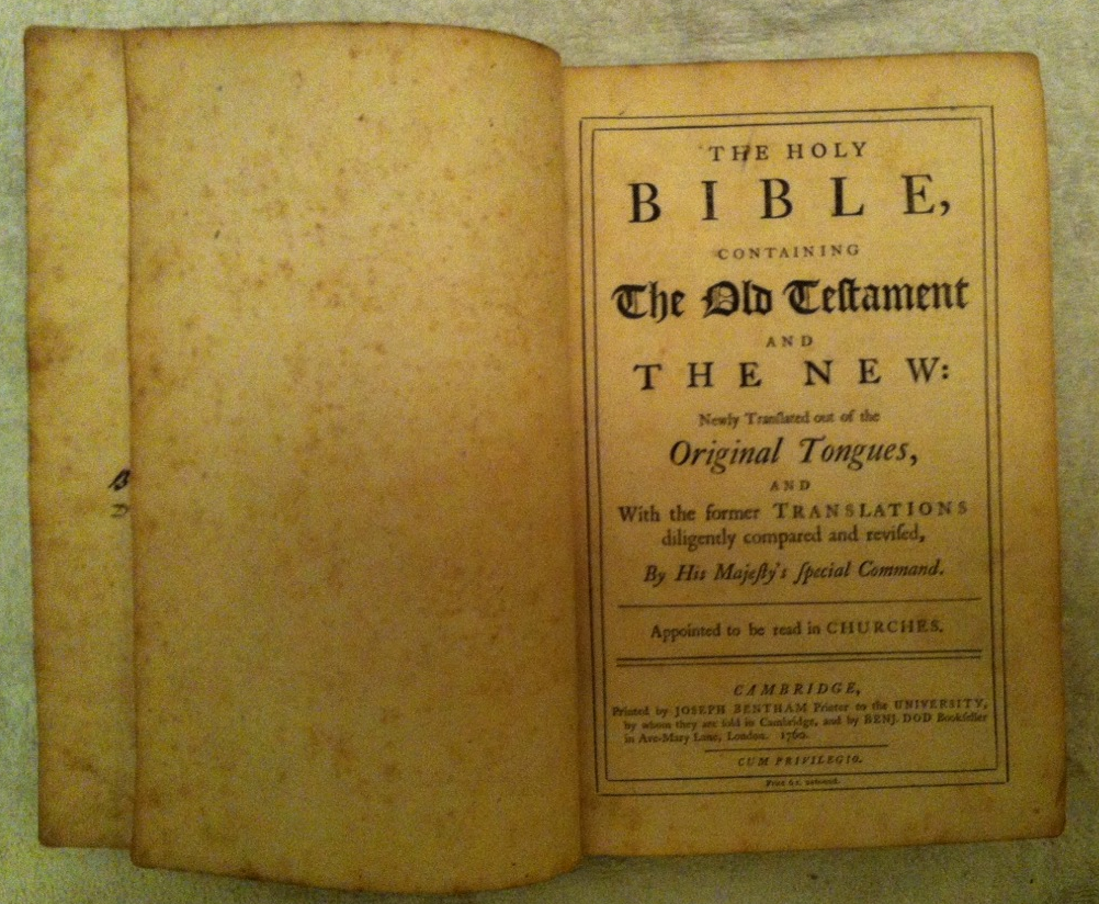 Title page from the 1760 Cambridge edition (Bentham/Dod) of the King James' Bible. "The Holy Bible, containing The Old Testament and The New: Newly Translated out of the Original Tongues, and With the former Translations diligently compared and revised, by His Majesty's Special Command. Appointed to be read in Churches. Cambridge, Printed by Joseph Bentham Printer to the University, by whom they are sold in Cambridge, and by Benj. Dod Bookseller in Ave-Mary Lane, London, 1760. Cum Privilegio."